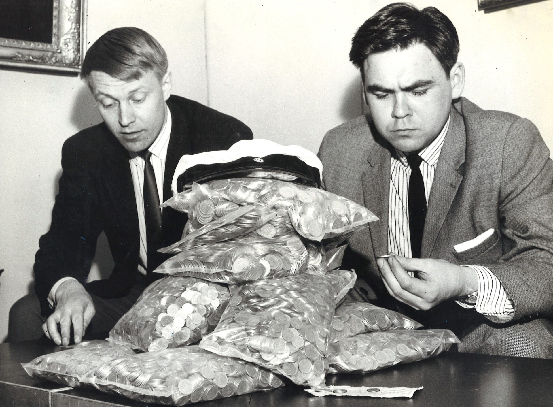 Photograph of the Finnish students Pentti Haapiseva (left) and Valdemar Melanko looking at coins collected from the Havis Amanda fountain in Helsinki.